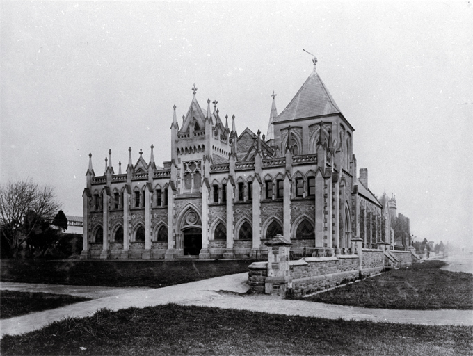 The old Supreme Court building, Christchurch. The Supreme Court was built between 1869 and 1874. The front of the building was demolished in 1980.